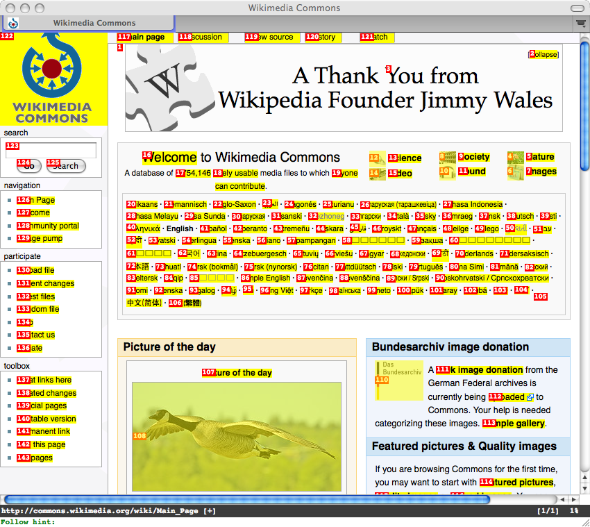 Shows Vimperator plugin adding hints to Wikimedia Commons page.